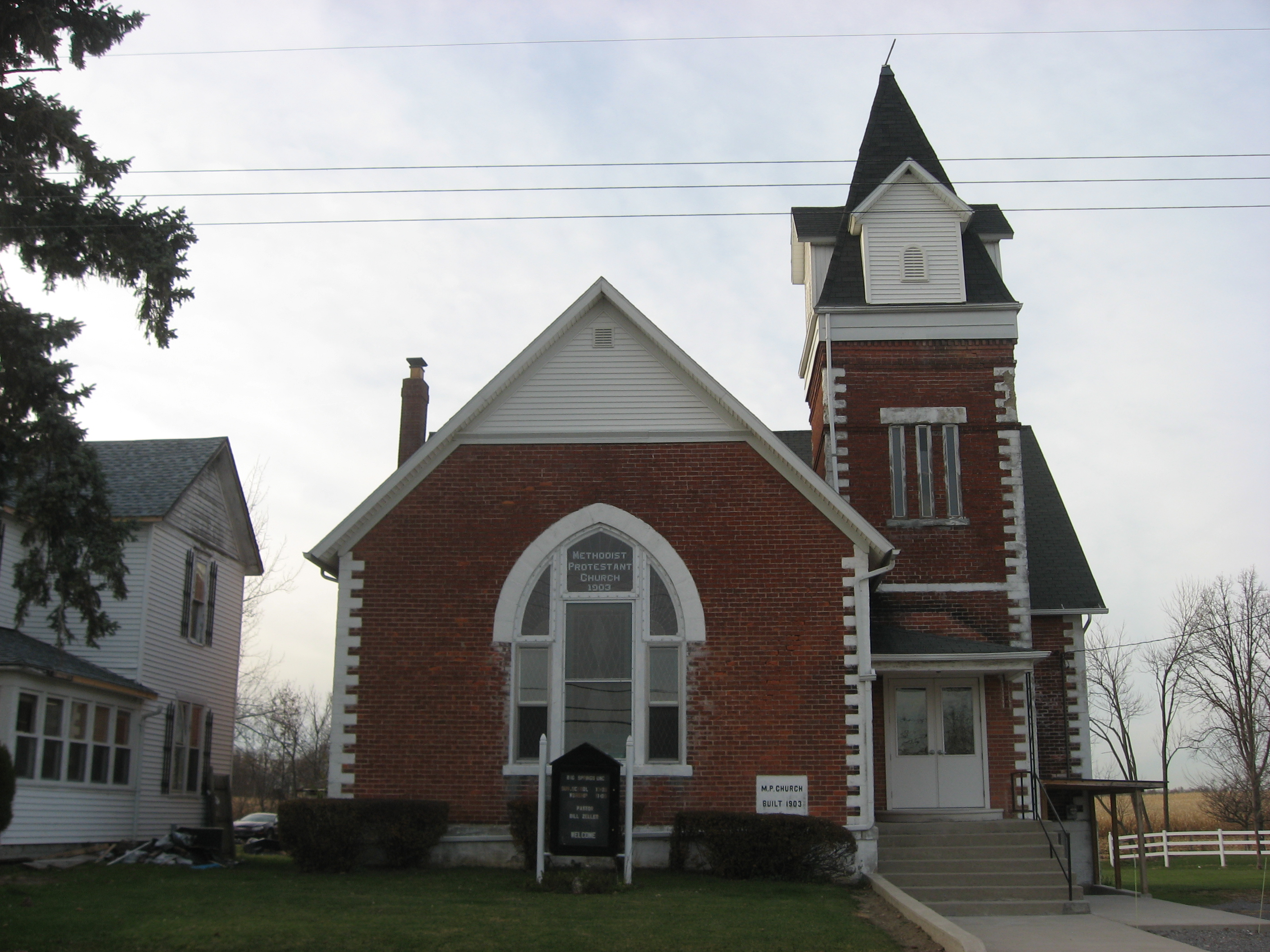 Big Springs United Methodist Church, located at 5787 E. State Route 274 in Big Springs, an unincorporated community in Rushcreek Township, Logan County, Ohio, United States. Built in 1903, it was founded as a congregation of the Methodist Protestant Church.